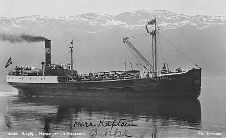 SS Tyssedal (1912) in Hardanger. Here used as car ferry in the 1930s.